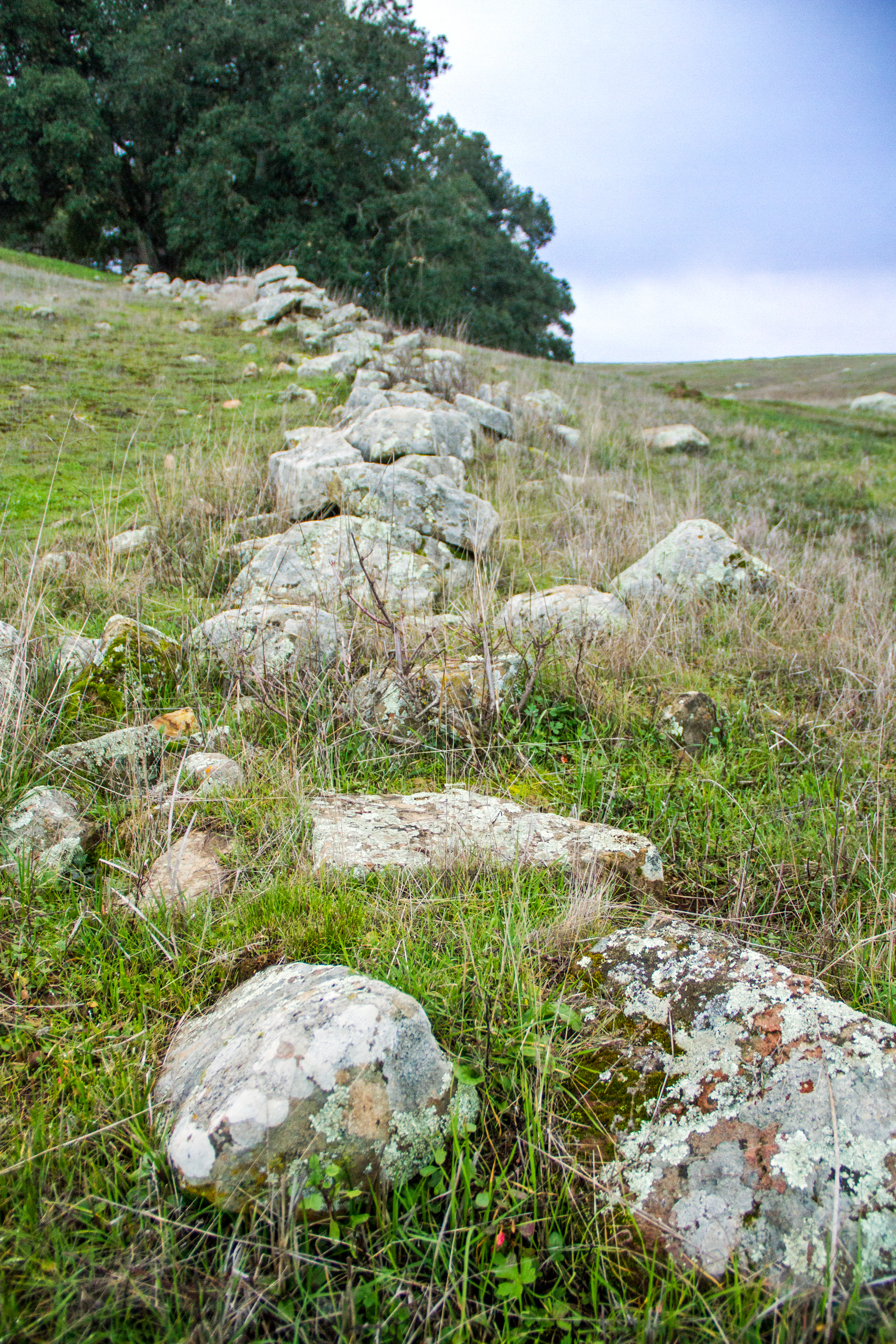 One of the many old stone walls that appear around the San Francisco Bay area. This one in the foothills east of San Jose